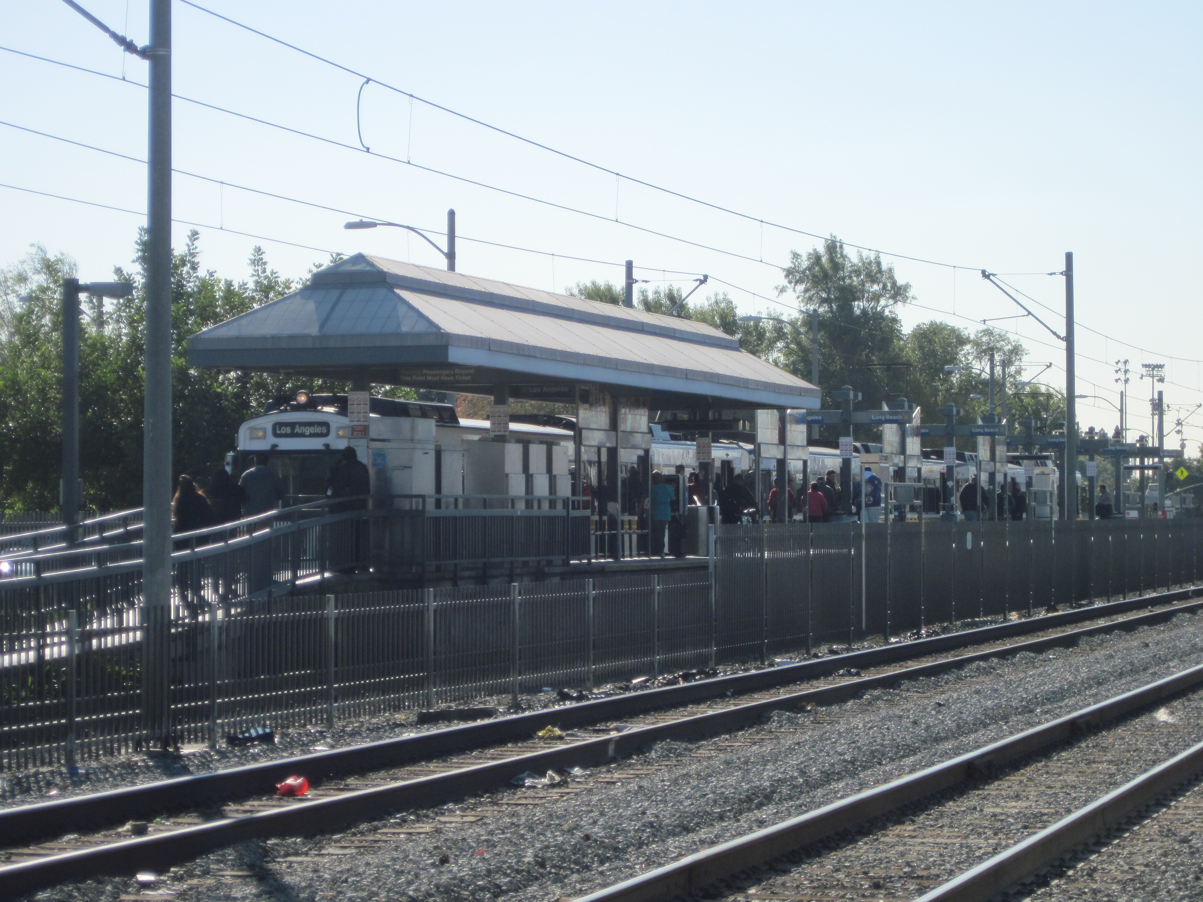 A Los Angeles-bound train takes on passengers at the Los Angeles County Metropolitan Transportation Authority's Florence station, serving the Metro Blue Line in Los Angeles, California, USA.